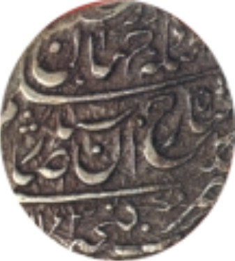 Coin_afsharid_ganja_khanate_18th-century_silver